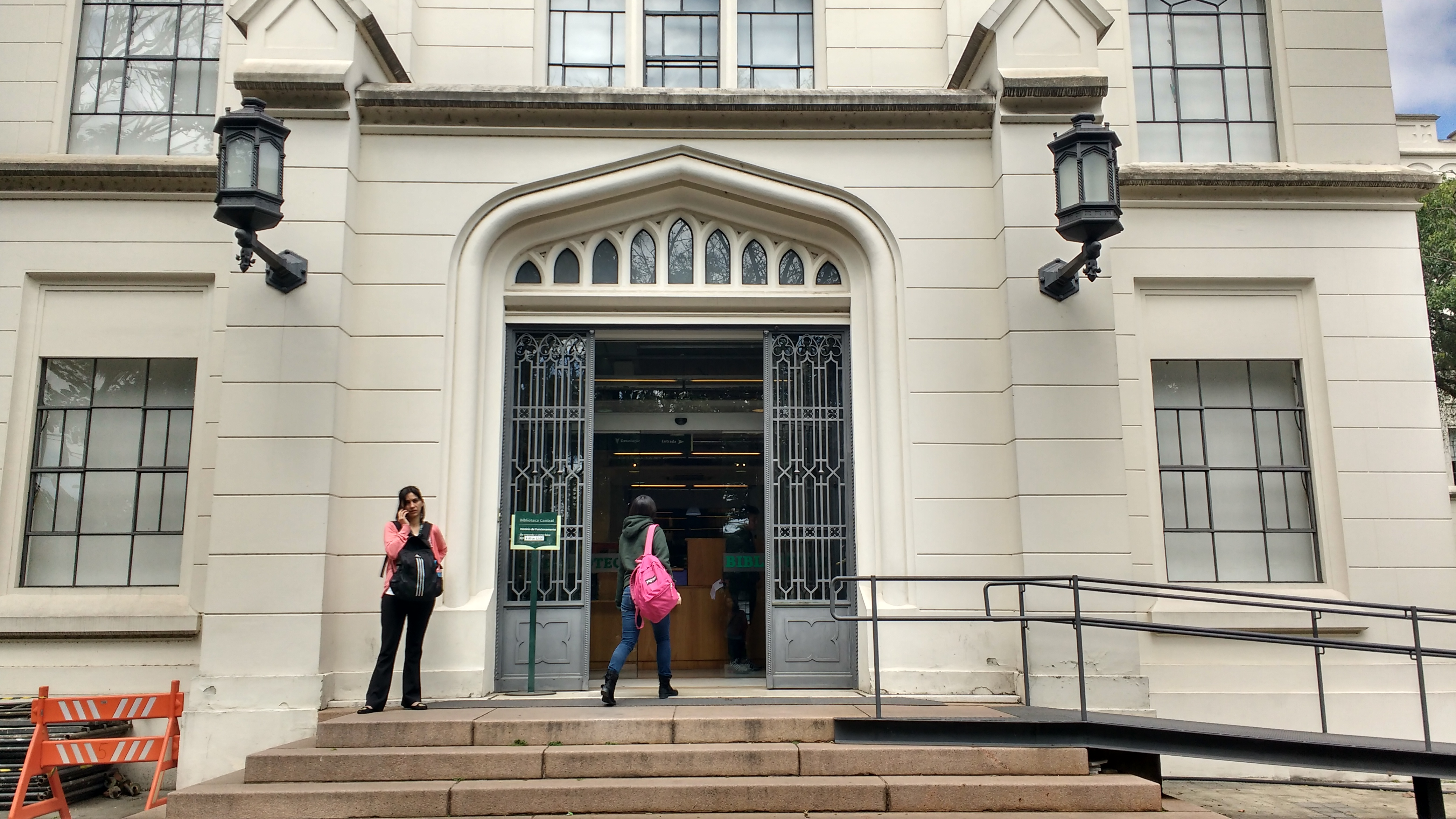 Library building's entrance.